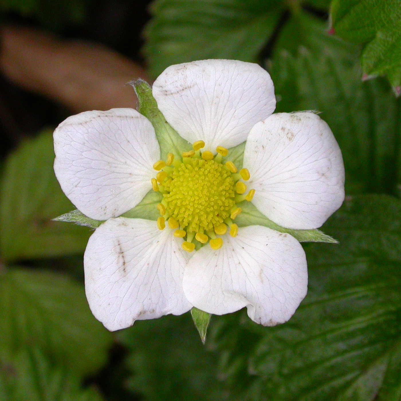 strawberry flower